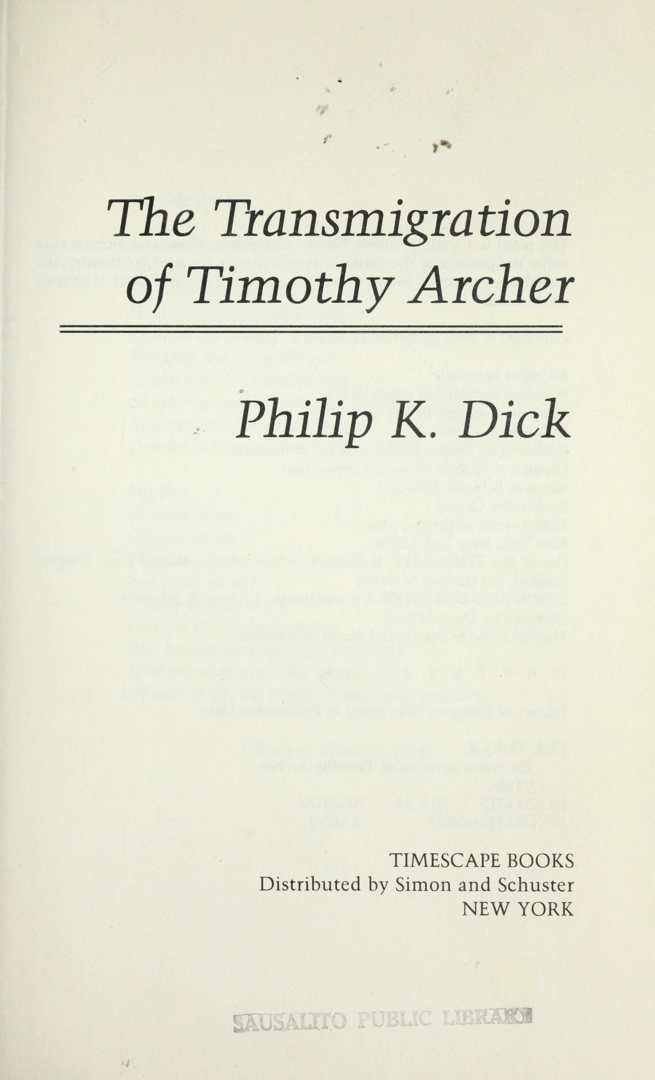 The Transmigration of Timothy Archer